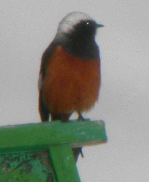 White-winged Redstart (Phoenicurus erythrogaster). This bird was sat on a piece of research equipment in a former Soviet cosmic ray research station at altitude 3500m. Kazakhstan.